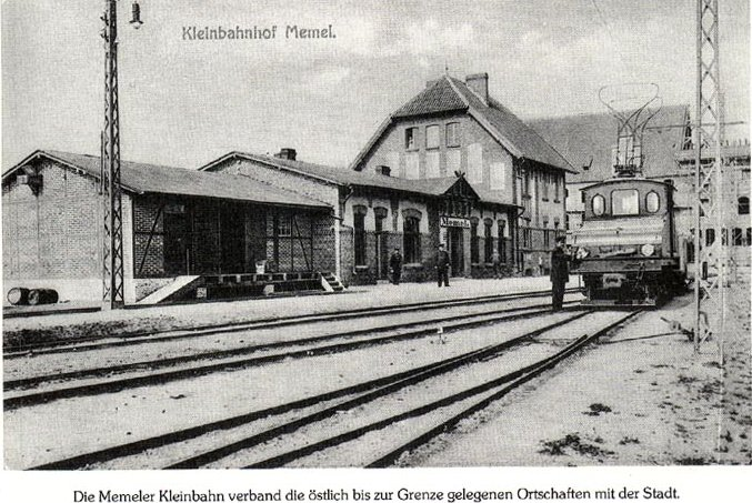 Old postcard displaying Klaipėda/Memel narrow railway station.